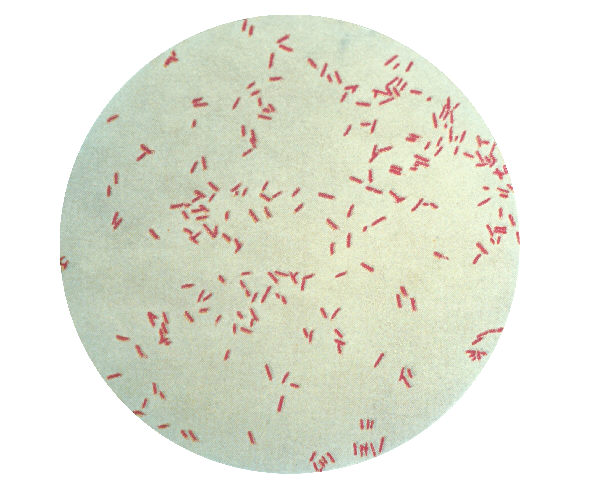 A gram stain of Pseudomonas aeruginosa.